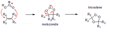 Simplified version of ozonolysis reaction mechanism